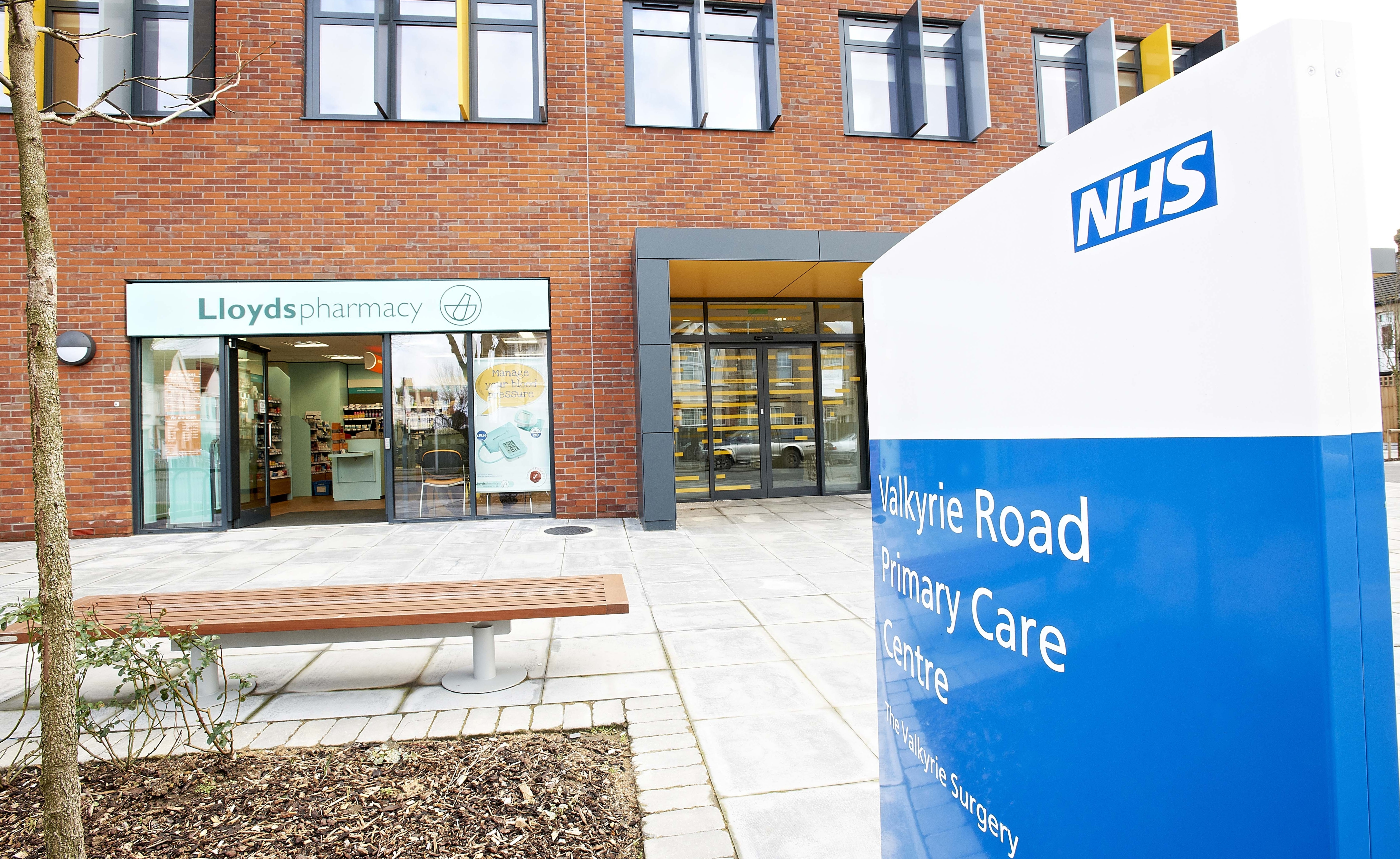 An NHS health centre in the United Kingdom.